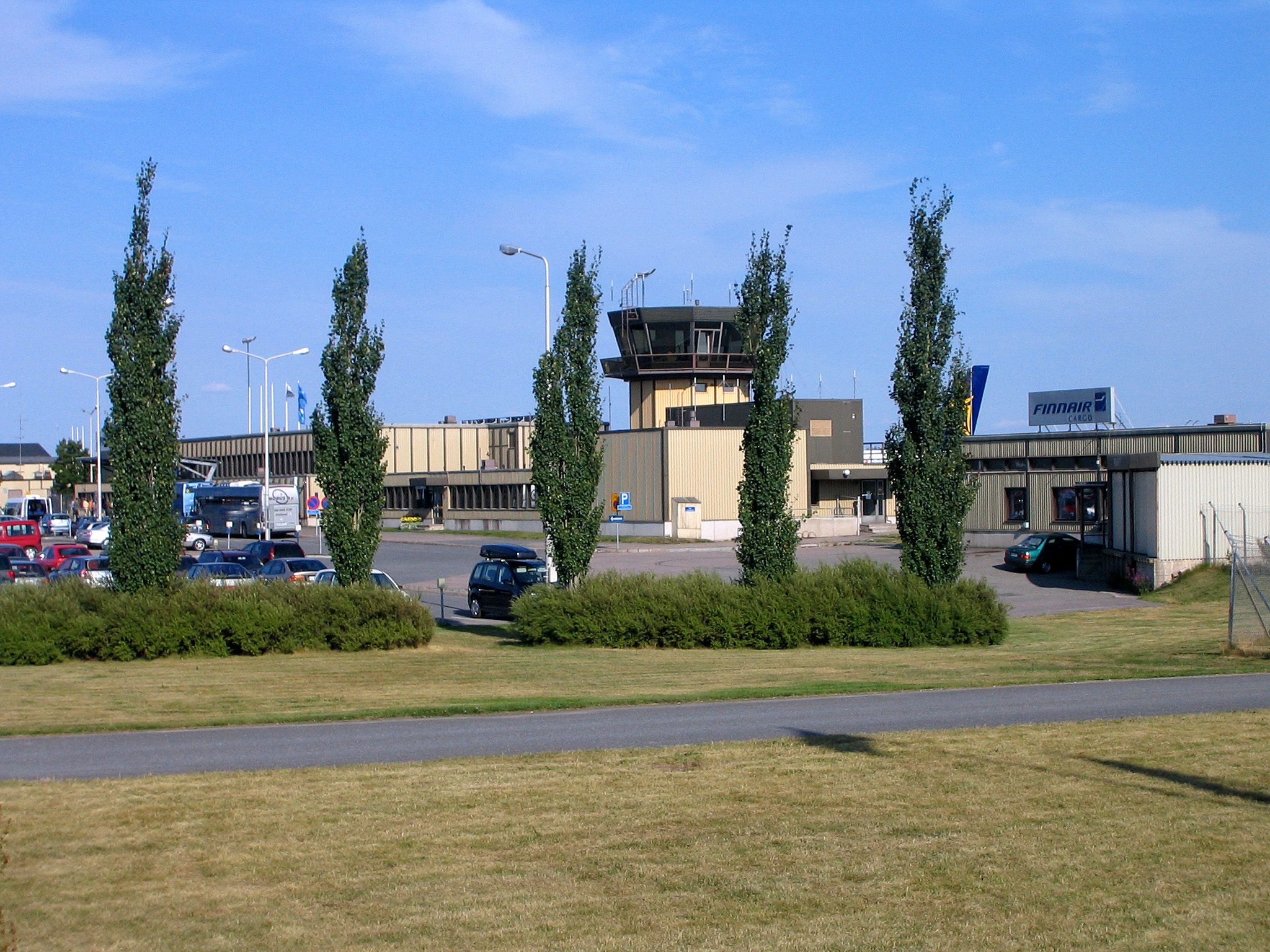 Tampere-Pirkkala Airport, Finland. Terminal 2 building, which is the original airports pavilion, now reserved for budget airlines services.